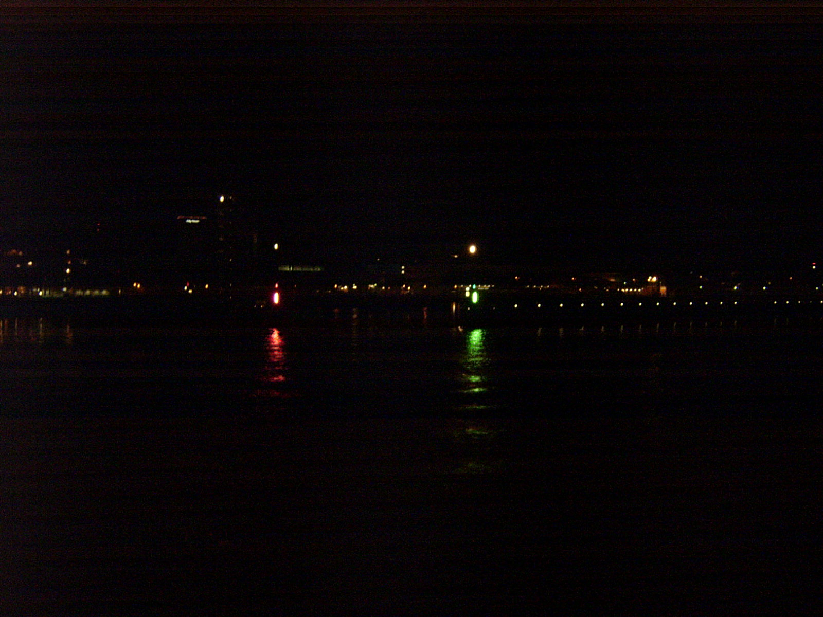 The port gate lights (red and green), marking the entry to the Friedrichshafen (large lake Bodensee) port.